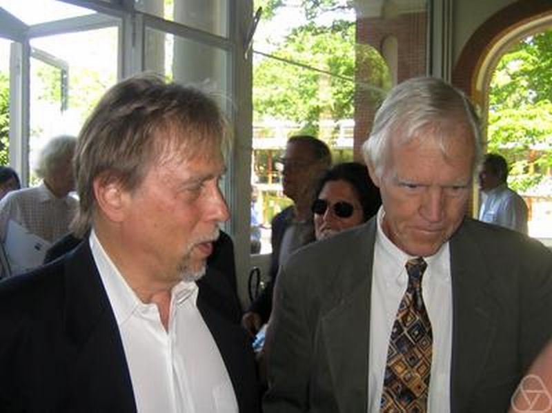 Jeff Cheeger (left), H. Blaine Lawson in Bures-sur-Yvette (Conference 60.Birthday Bourguignon) 2007